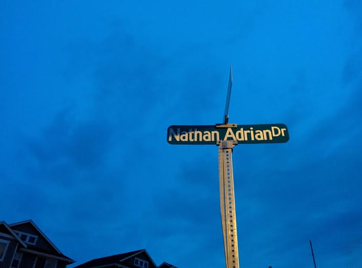 Nathan Adrian Drive, in Adrian's hometown Bremerton.